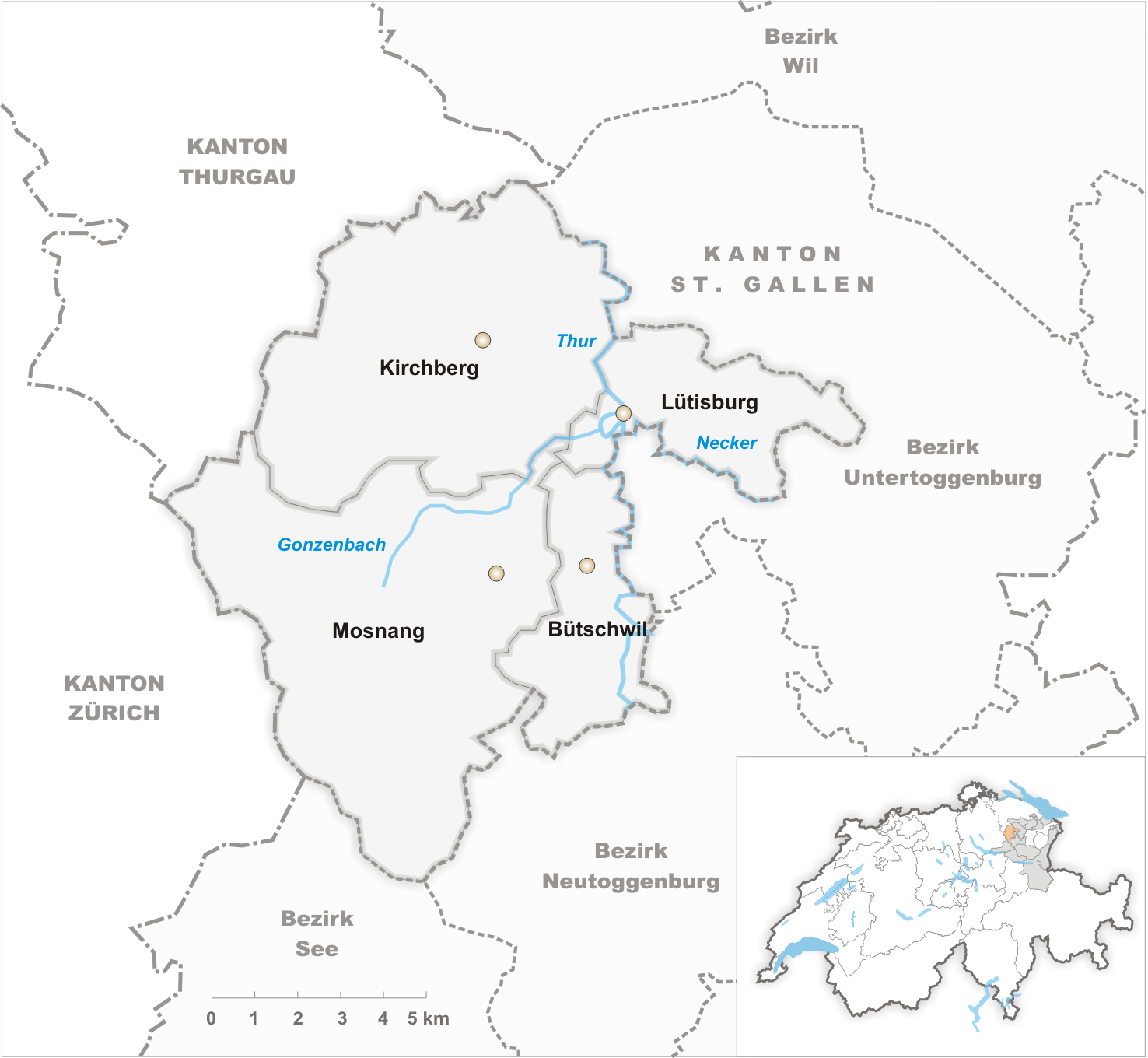 Municipalities in the district of Alttoggenburg until 2002 Map drawn by Tschubby